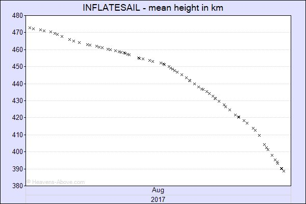 InflateSail Orbit Average Height for August 2017